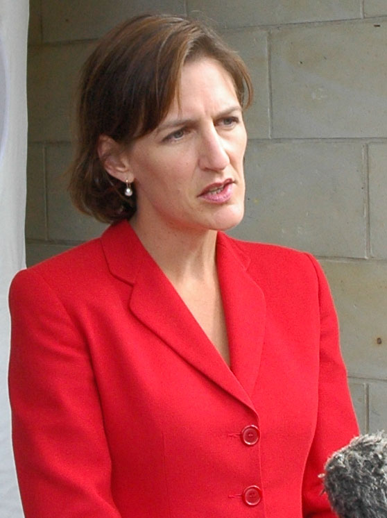 Cassy O'Connor talking to reporters in Hobart